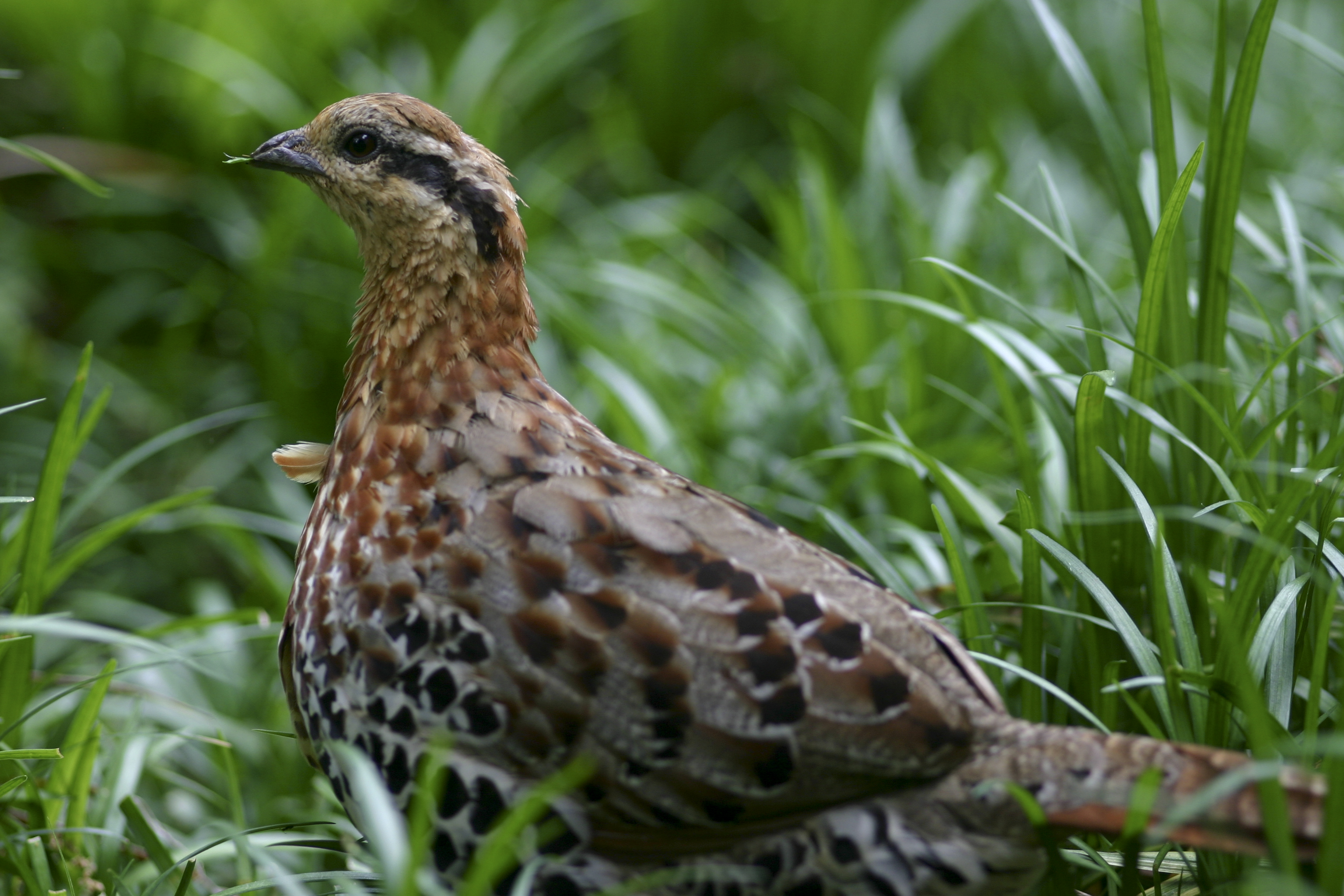 Mountain Bamboo-partridge in short grass.